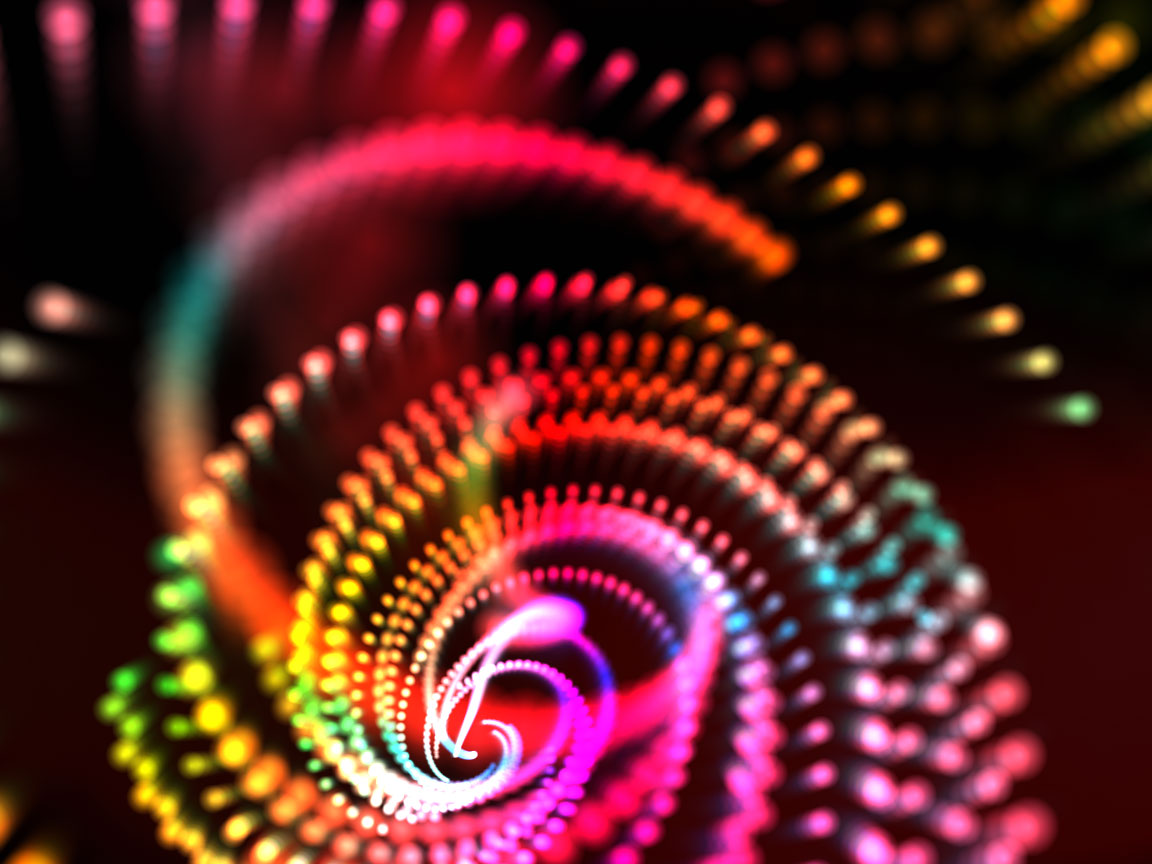 Screenshot of a GPL screensaver